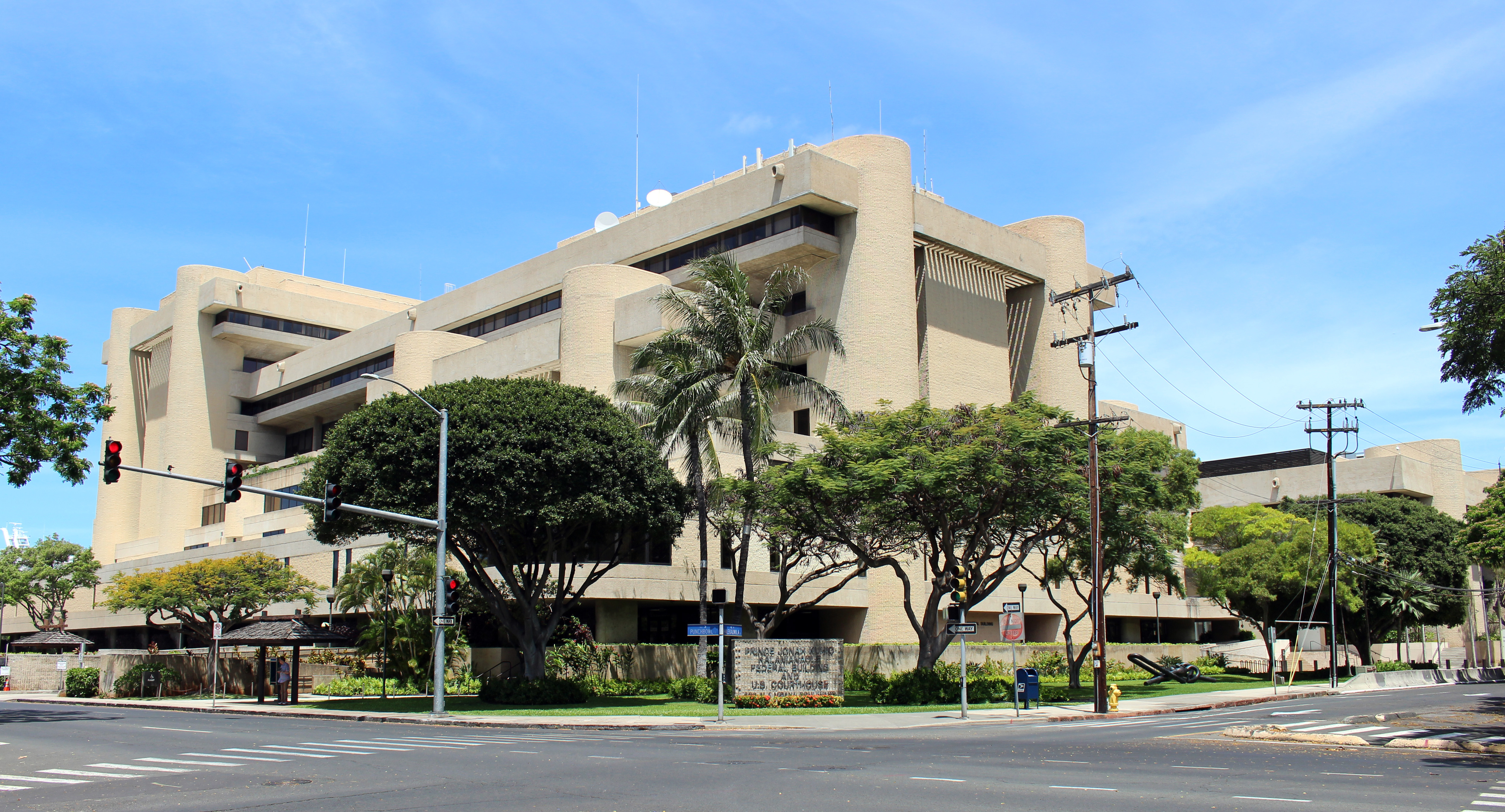 The Prince Jonah Kūhiō Kalanianaʻole Federal Building and United States Courthouse in Honolulu, Hawaii. This is the main federal building in Hawaii and is also home to the main courthouse of the United States District Court for Hawaii. Photographed by user Coolcaesar on May 25, 2019.